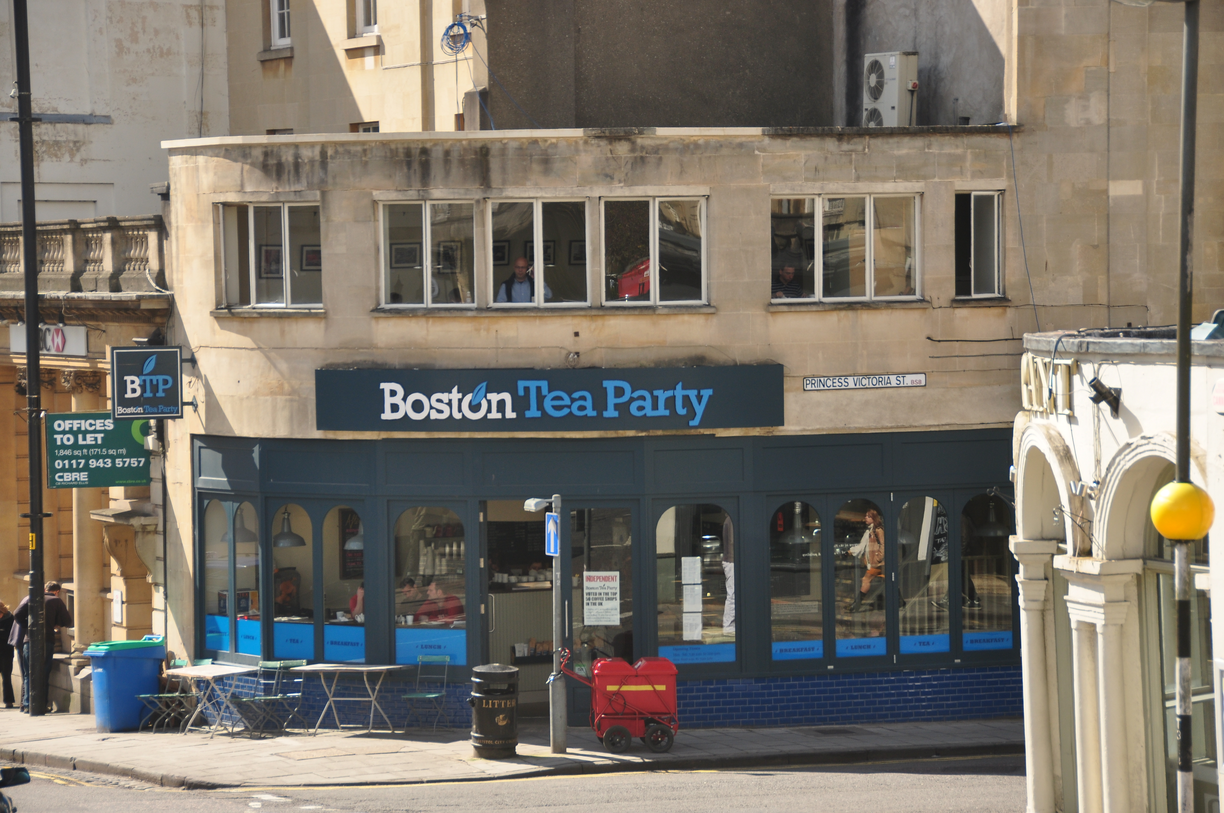 Cafe in Bristol